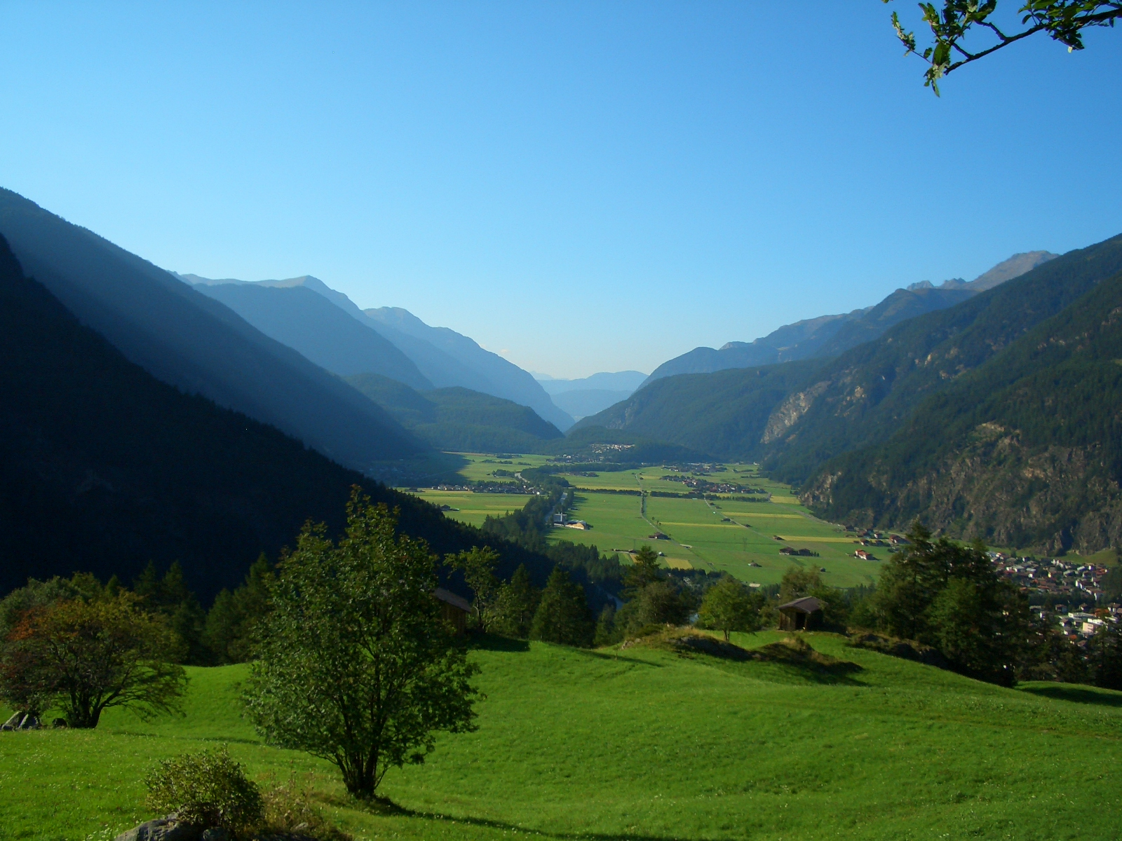 The Ötztal near Längenfeld in Tyrol. This view down the valley is offered to the climber after the visit of the Reinhard-Schiestl-Klettersteig, south of the village, which can be seen on the right